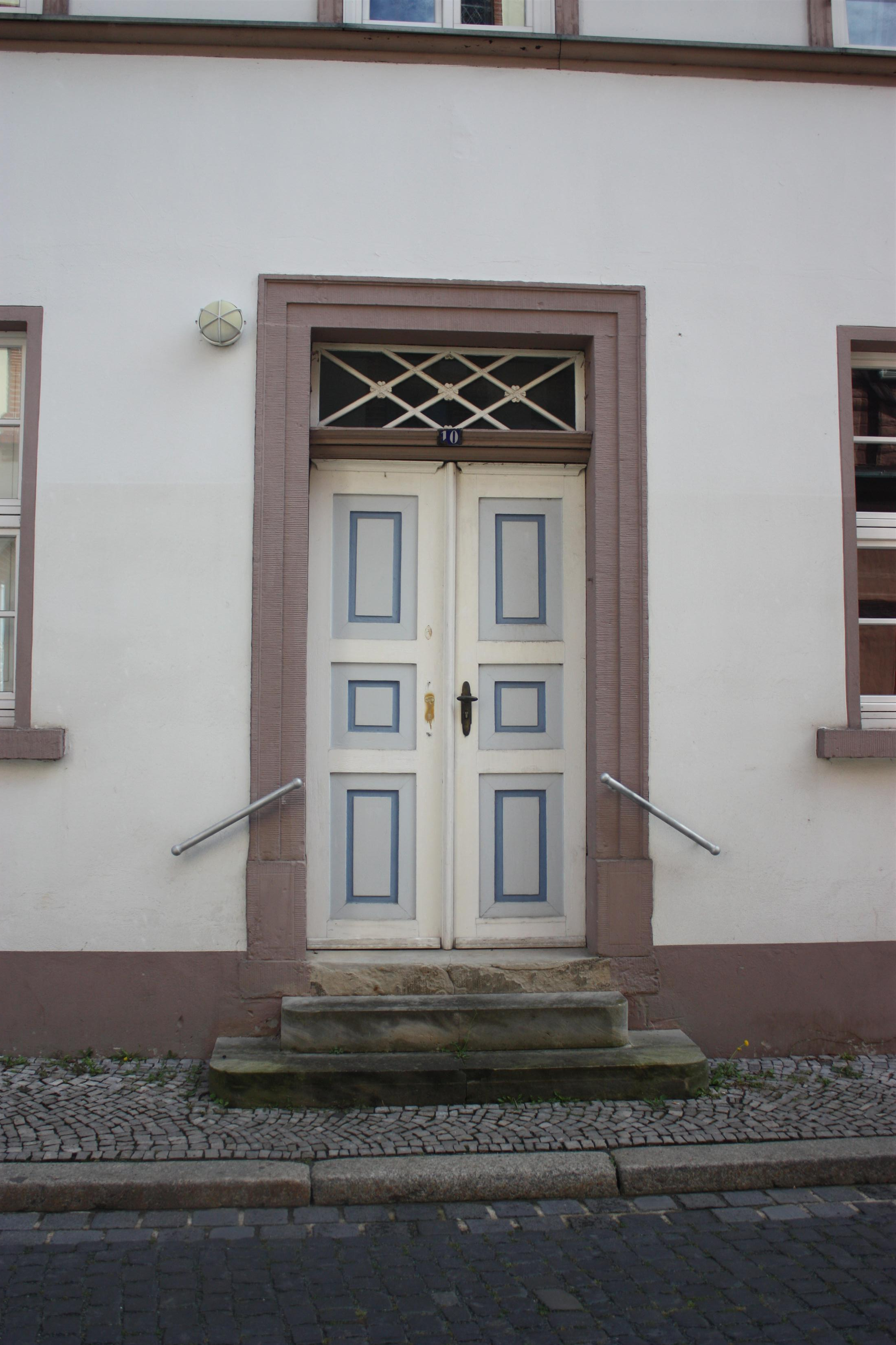 This is a photograph of an architectural monument.It is on the list of cultural monuments of Quedlinburg Quedlinburg Lange Gasse